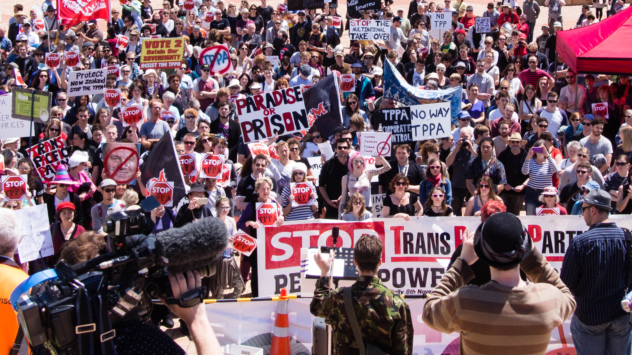 Rally against the Trans-Pacific Partnership Agreement (TPPA) in Wellington, New Zealand.